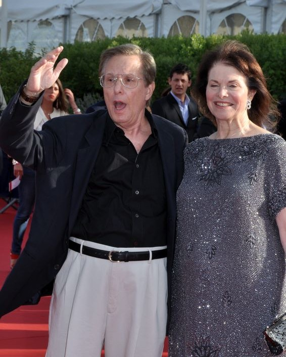 William Friedkin and Sherry Lansing at the Deauville American Film Festival